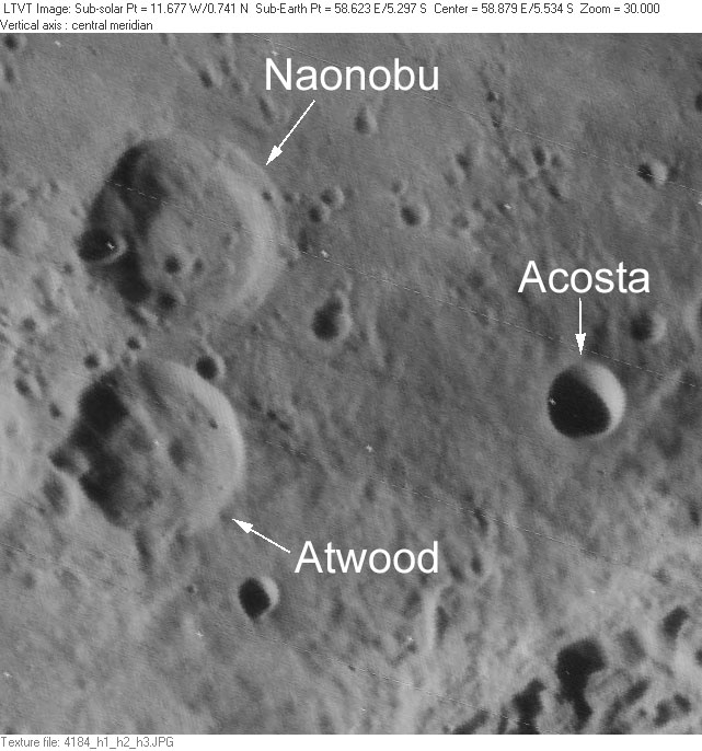 Craters Acosta, Atwood, Naonobu